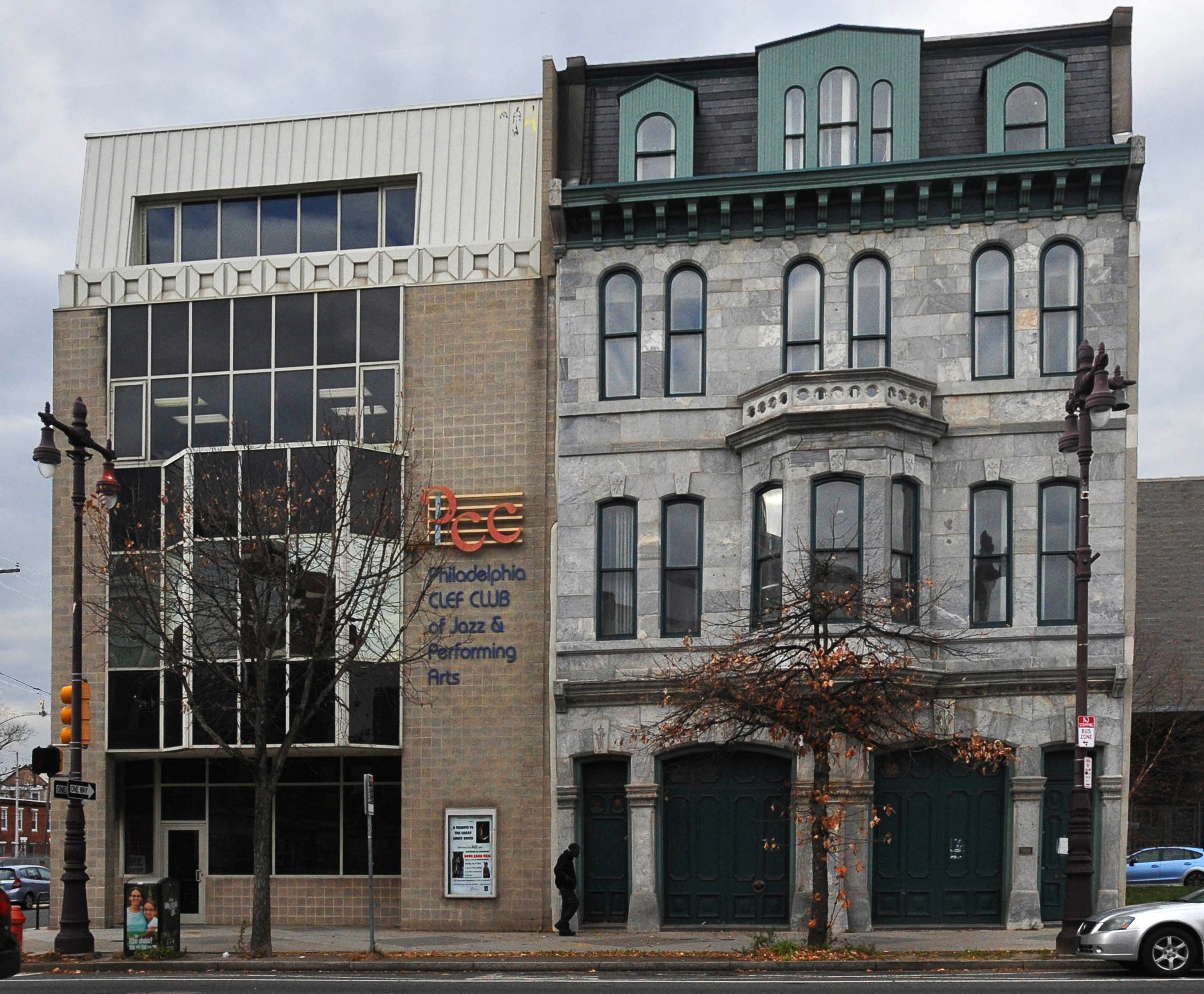 730 SOUTH BROAD STREET; FIRST BUILT IN 1849, ALTERED IN 1868-1869, AND AGAIN RECENTLY; IT IS NOW USED AS A CHURCH